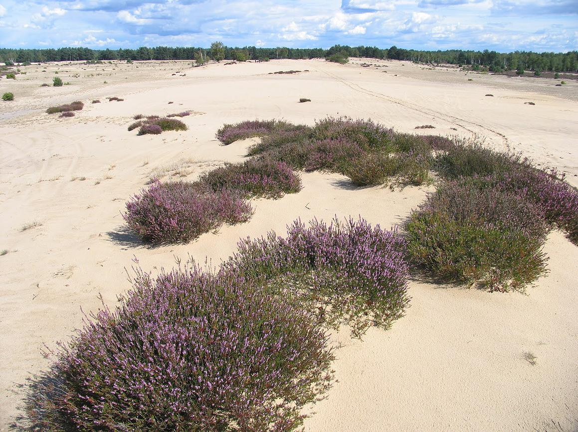 Desert of Kozłowska in Lower Silesia, Poland